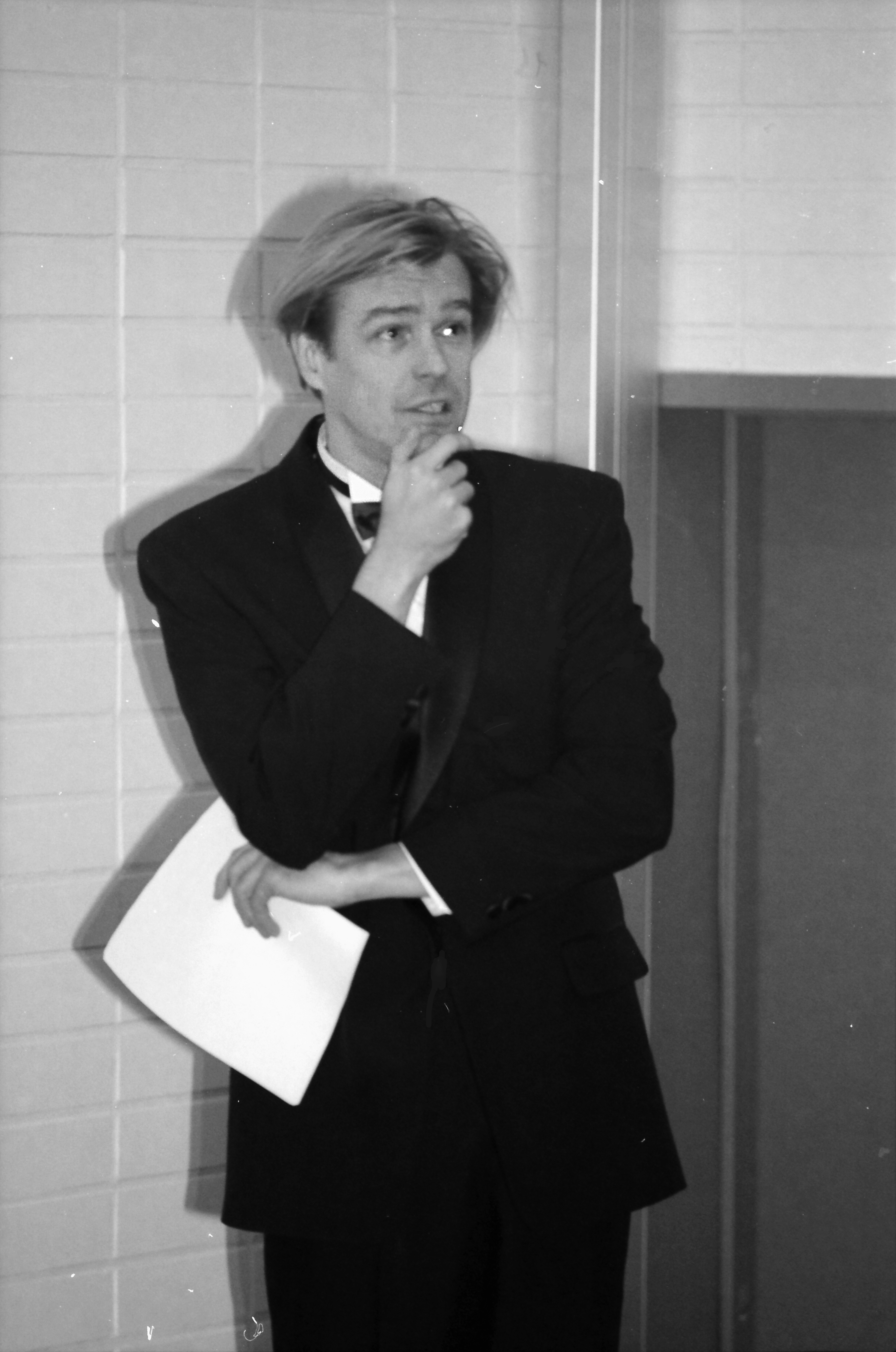 Professor Kari Jormakka (1959-2013), Finnish architect